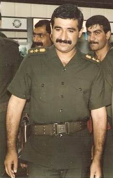 Image of Hussein Kamel al-Majid